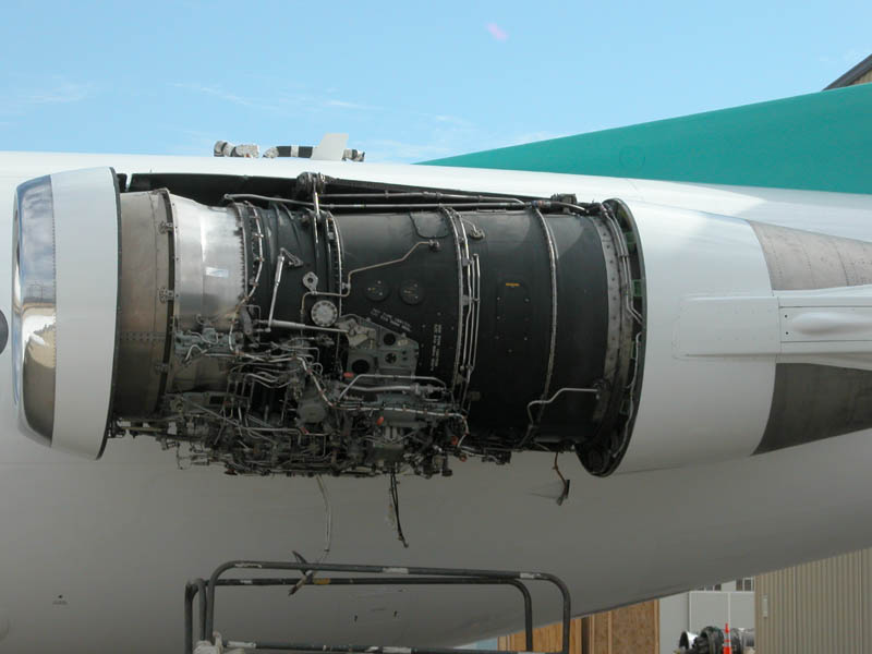 Rolls-Royce Tay 650